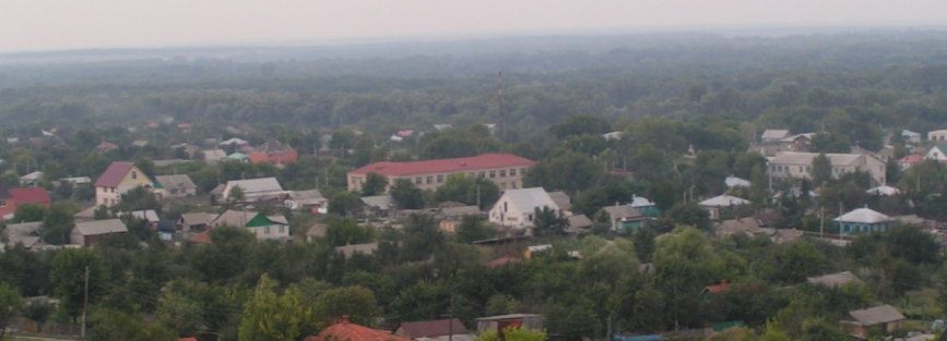 Arganovskaya stanitsa